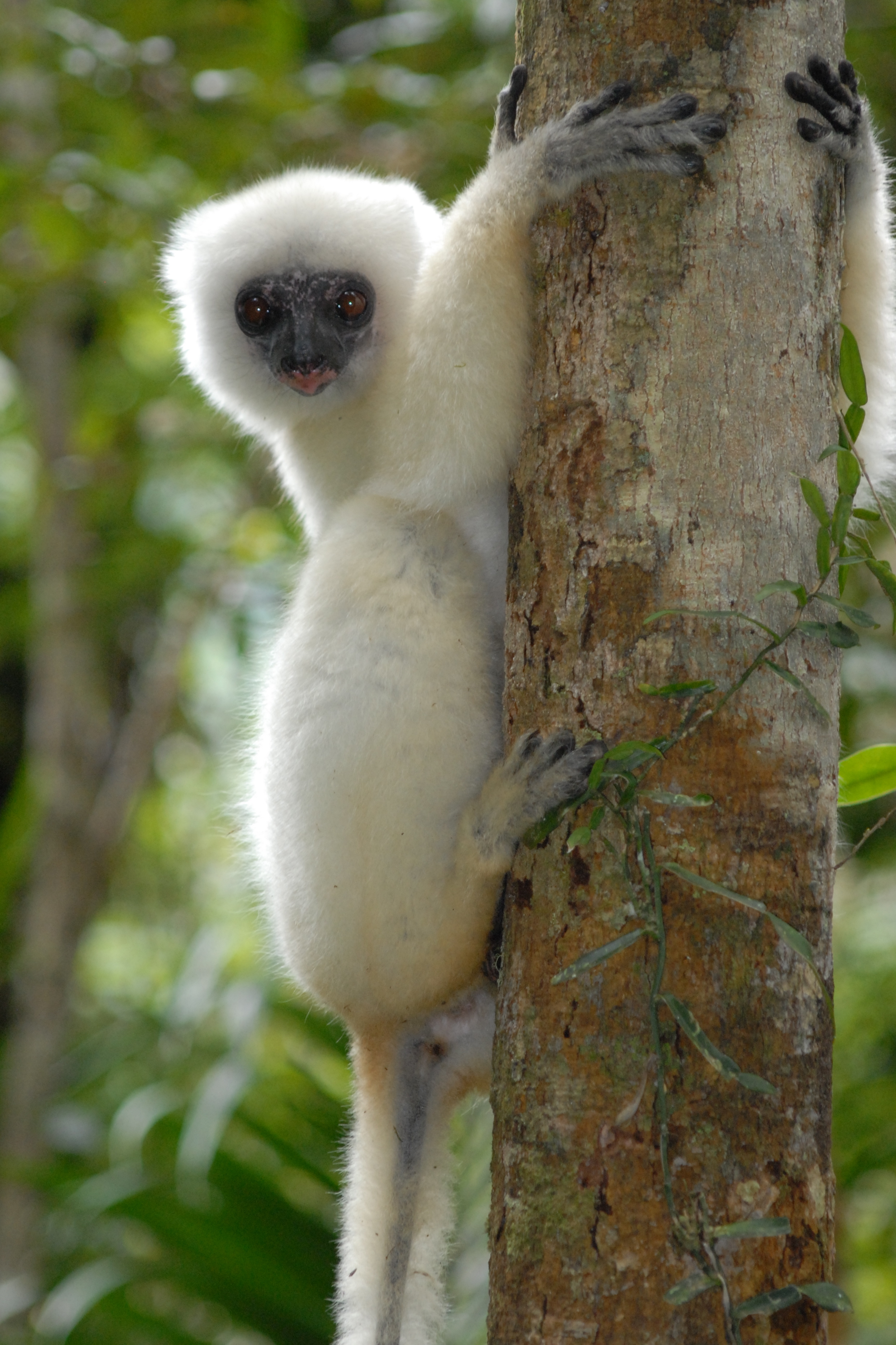 Silky Sifaka Propithecus candidus, Marojejy National Park, Madagascar